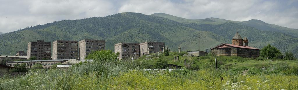 Vannadzor city, Armenia